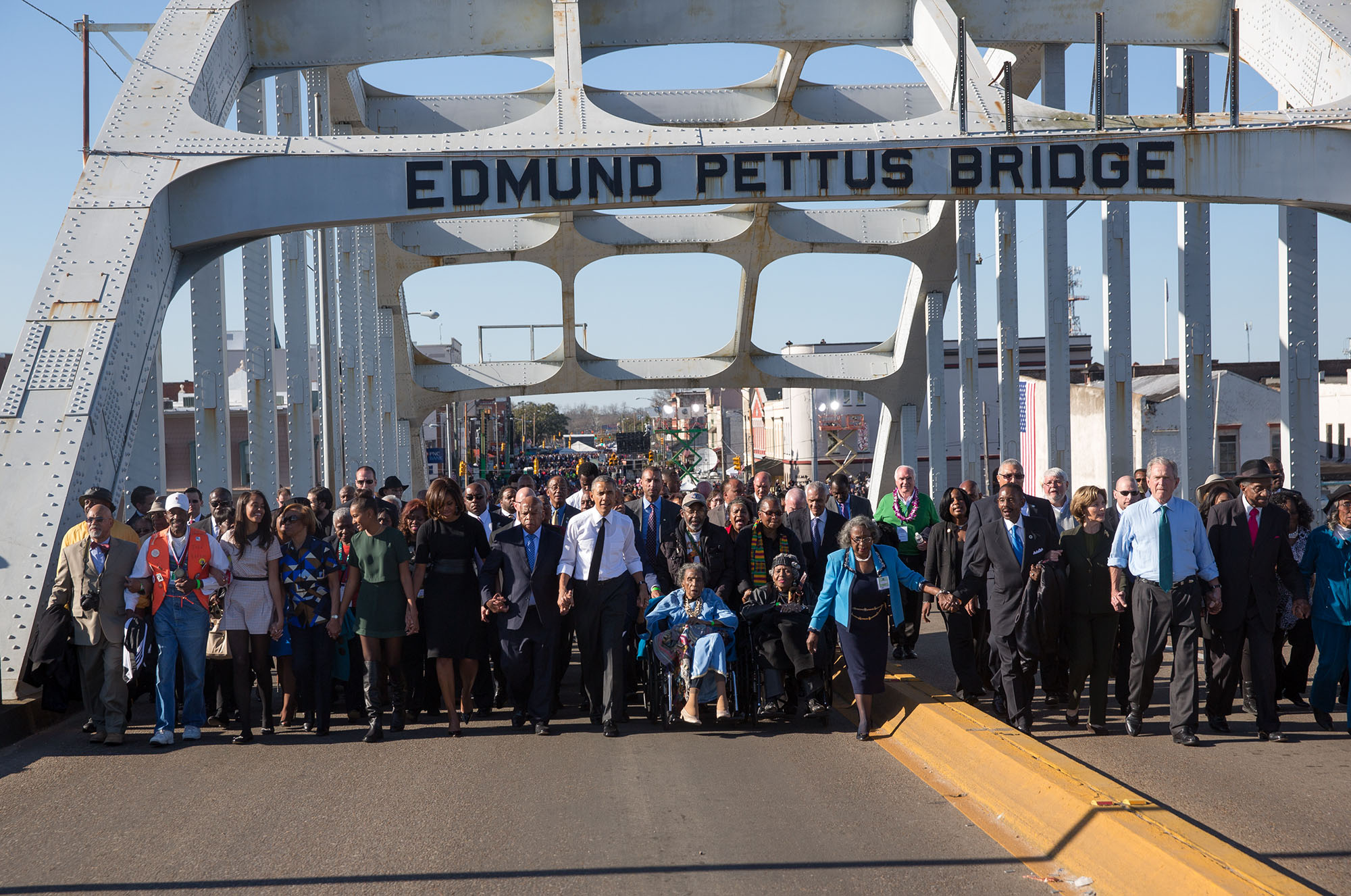 The Obamas and the Bushes continue across the bridge.